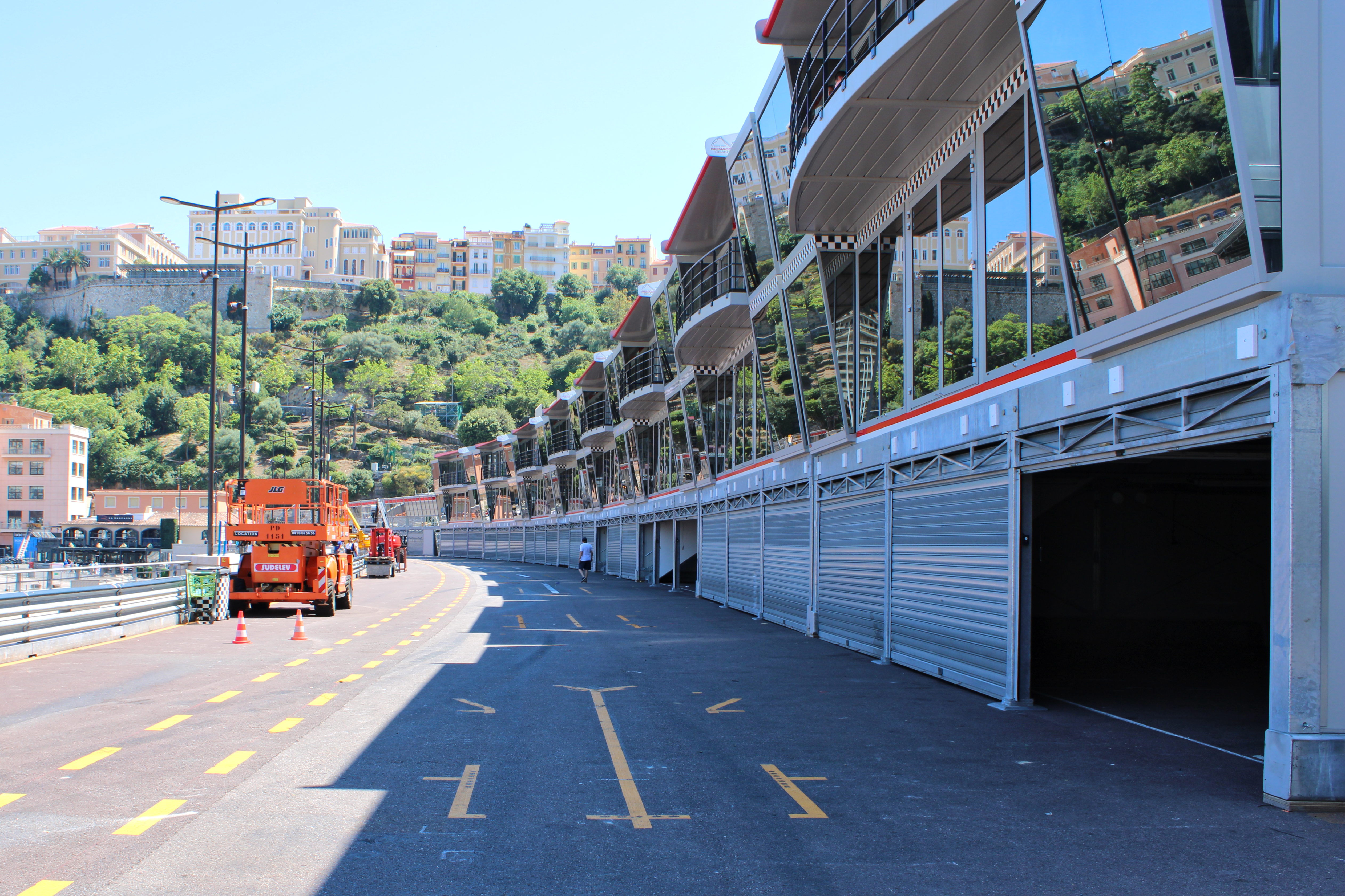 Pit Lane Circuit de Monaco